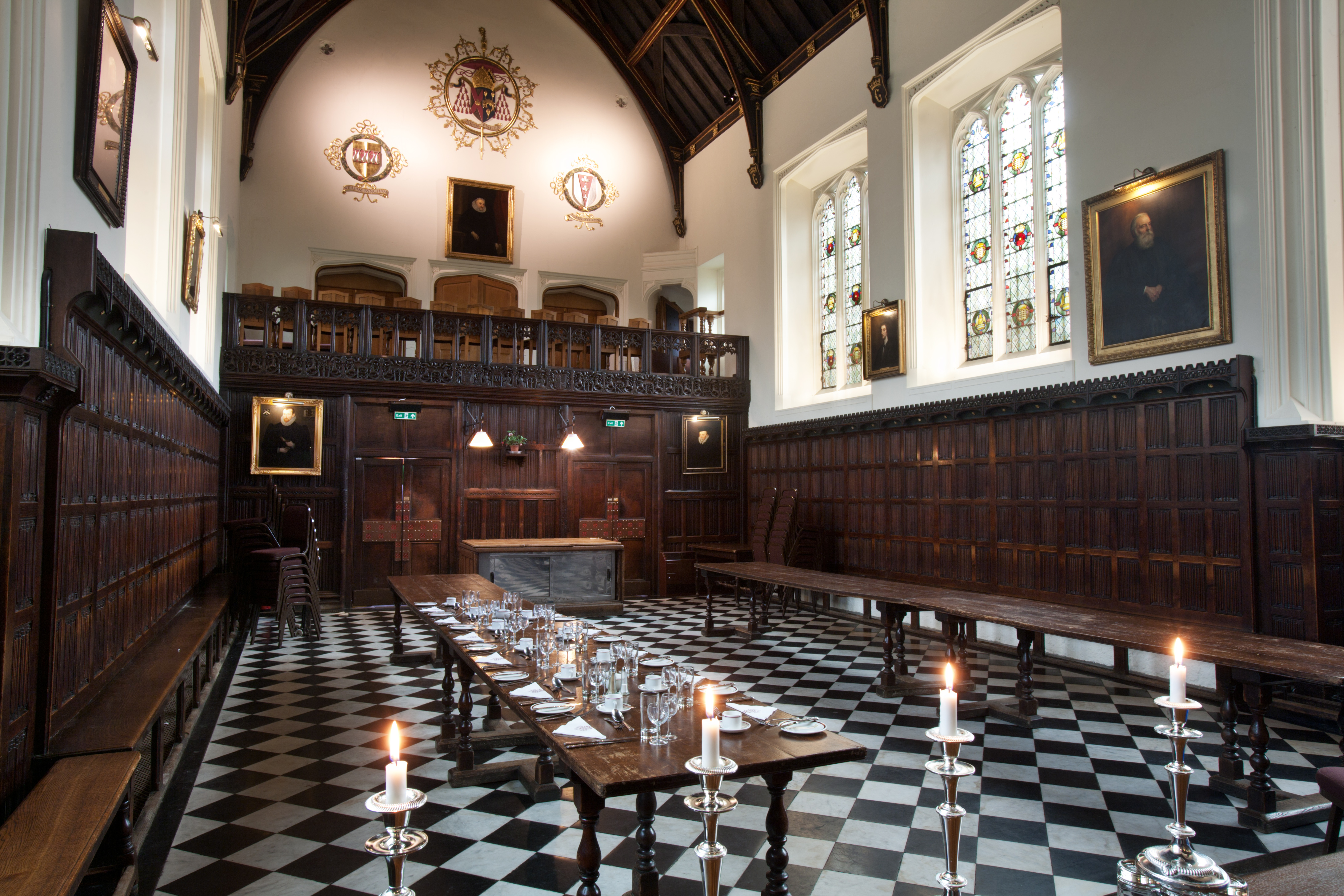 Main Hall. Christ's College, Cambridge, UK